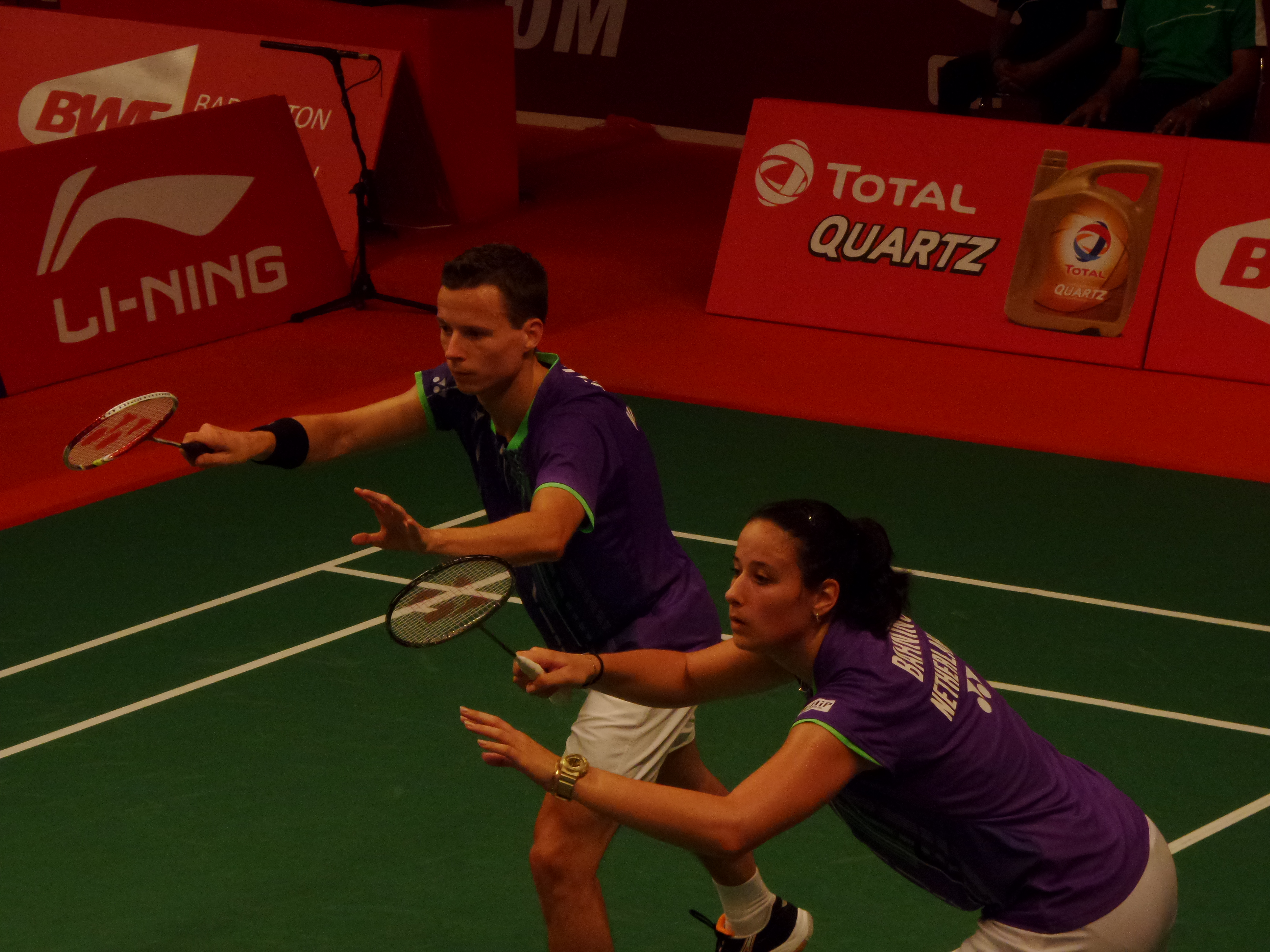 Jorrit de Ruiter and Samantha Barning in action during Day 2 of the 2015 BWF World Championships